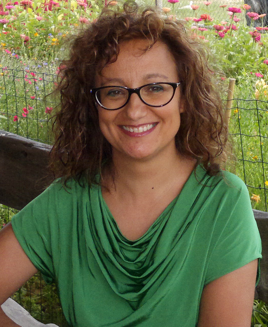 Wilma Massucco, filmmaker